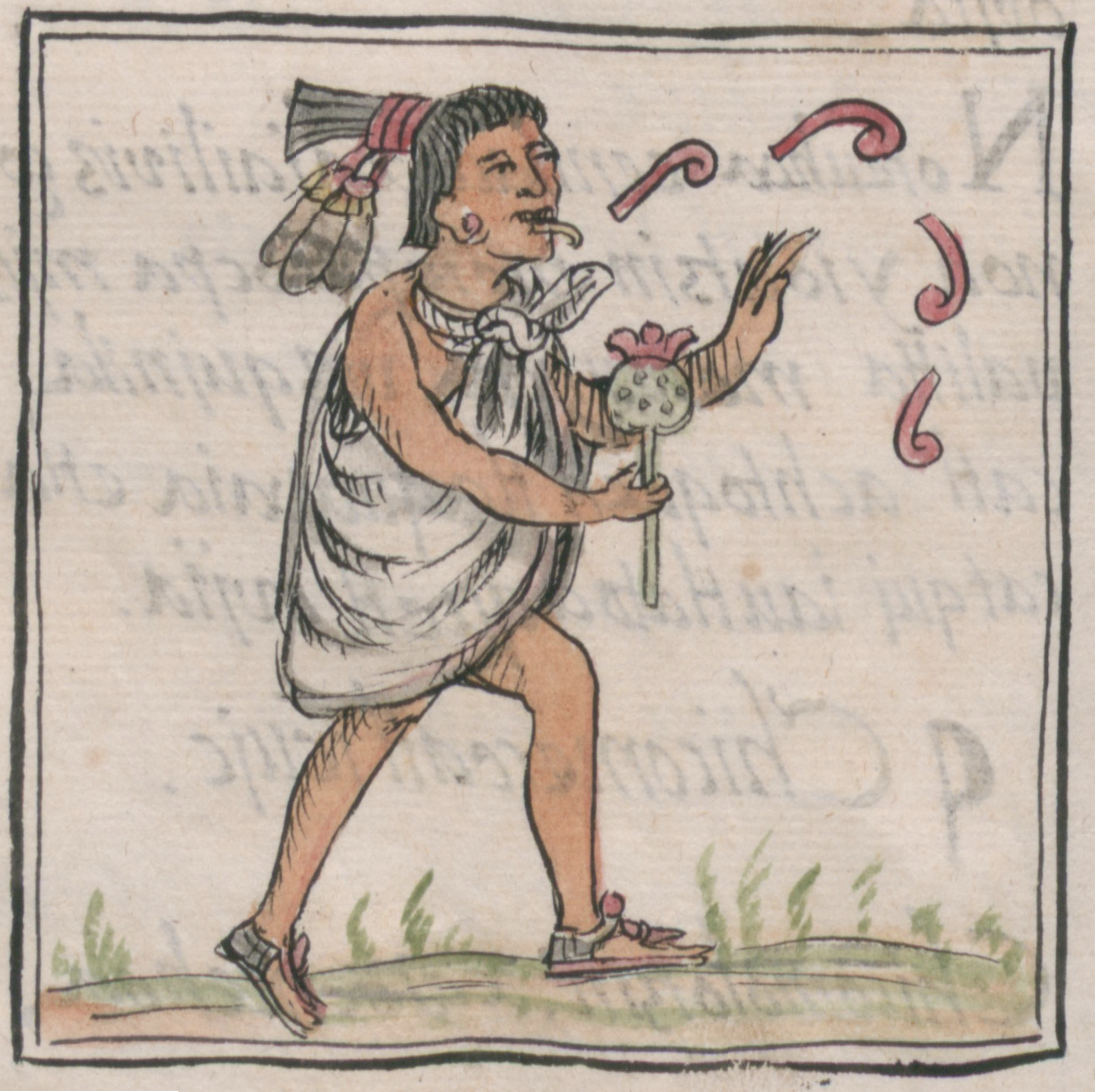 Nahua man possibly singing "Atlahua Icuic" (to the god Atlahua?)